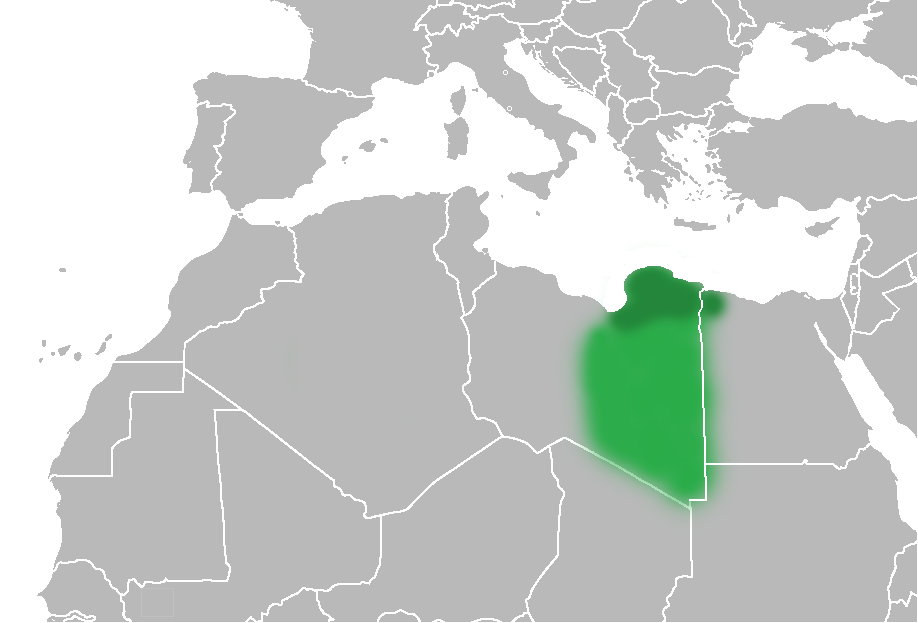 The Ottoman Turks conquered the country in the mid-16th century, and the three States or "Wilayat" of Tripolitania, Cyrenaica and Fezzan (which make up Libya) remained part of their empire with the exception of the virtual autonomy of the Karamanlis. The Karamanlis ruled from 1711 until 1835 mainly in Tripolitania, but had influence in Cyrenaica and Fezzan as well by the mid 18th century.